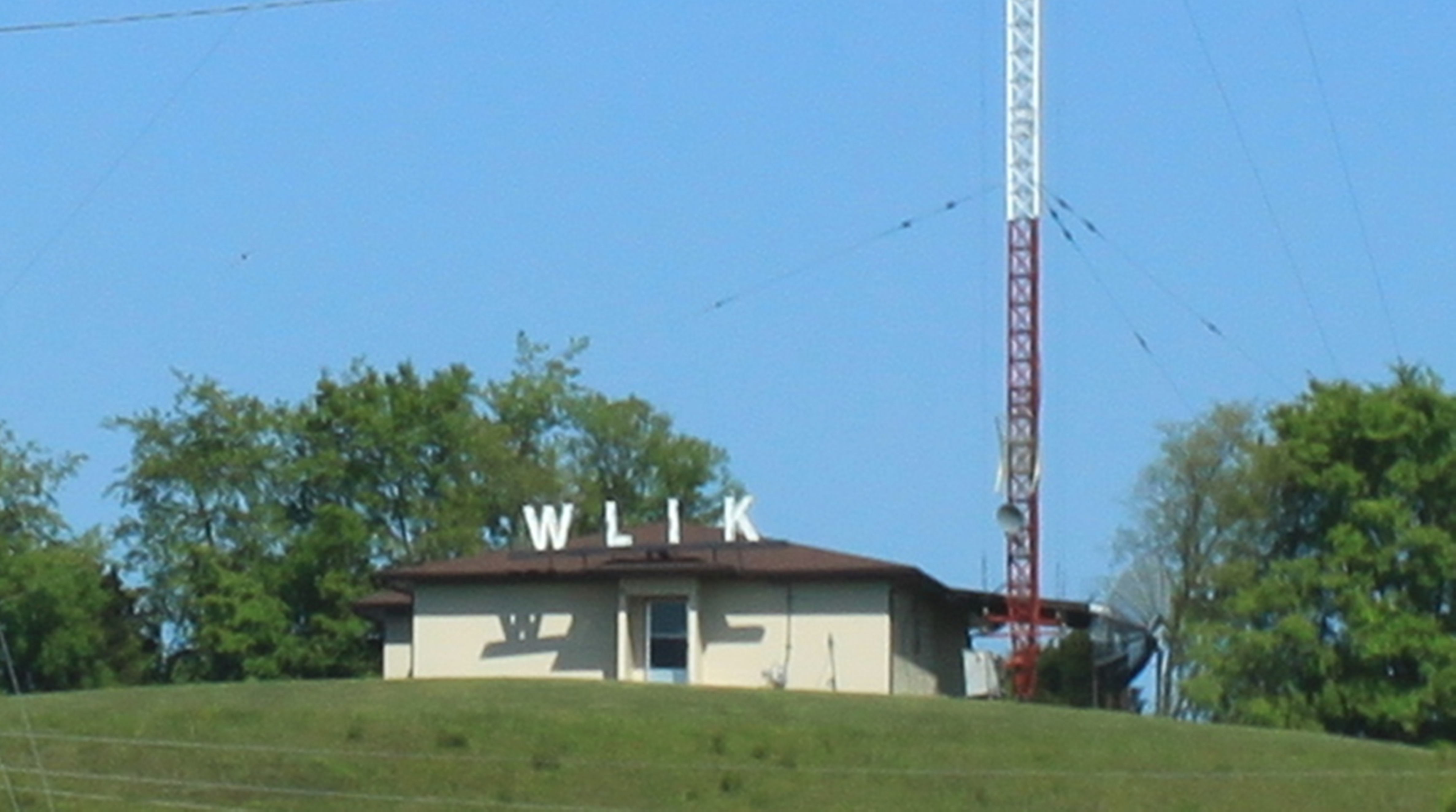 Radio station WLIK studios and transmitter, 640 West Highway 25 70, Newport, Tennessee.